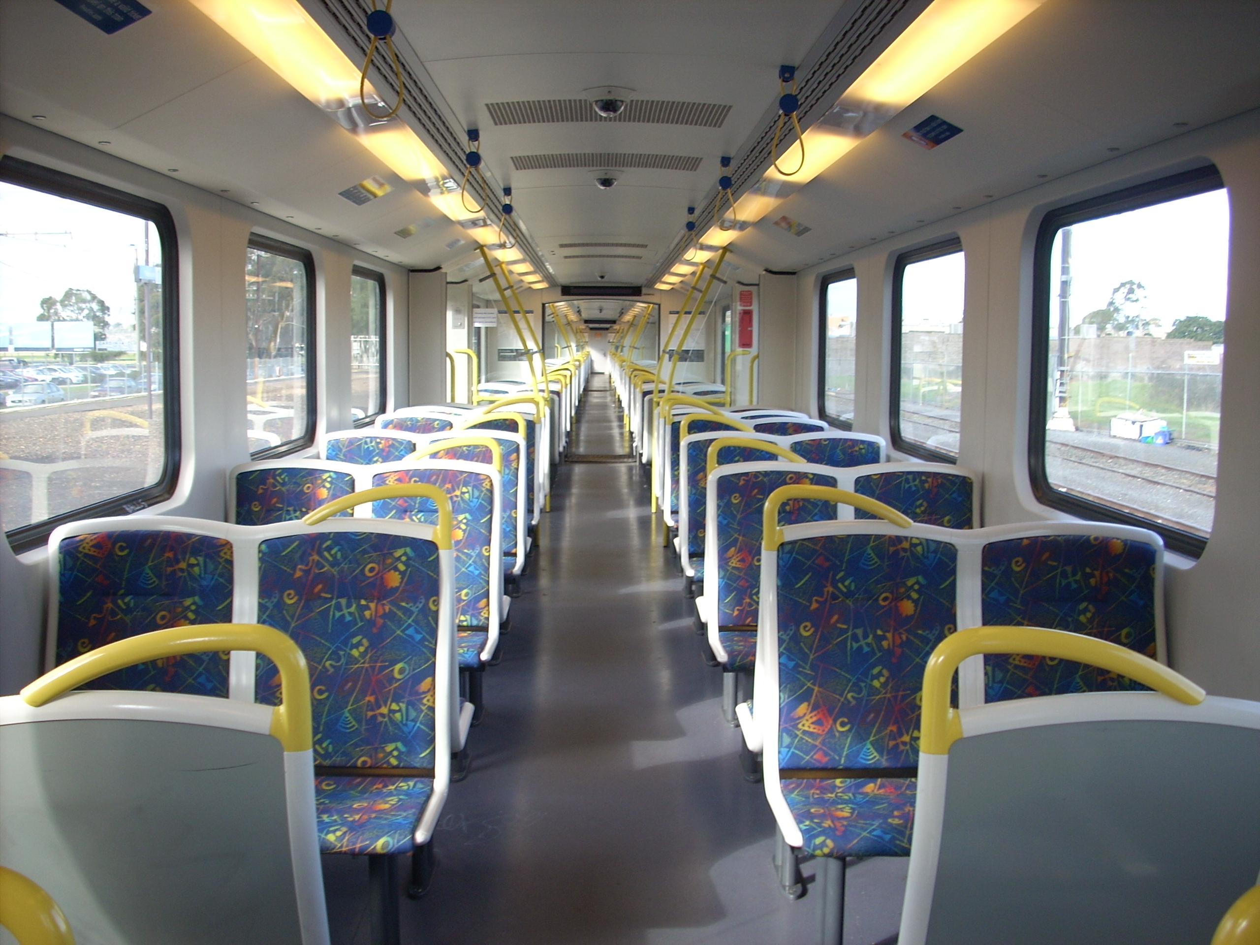 Siemens set interioir with new seat covers